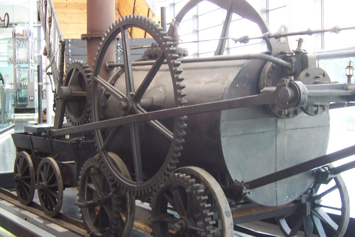 Replica of Richard Trevithick's 1802 locomotive at the National Waterfront Museum, Swansea.